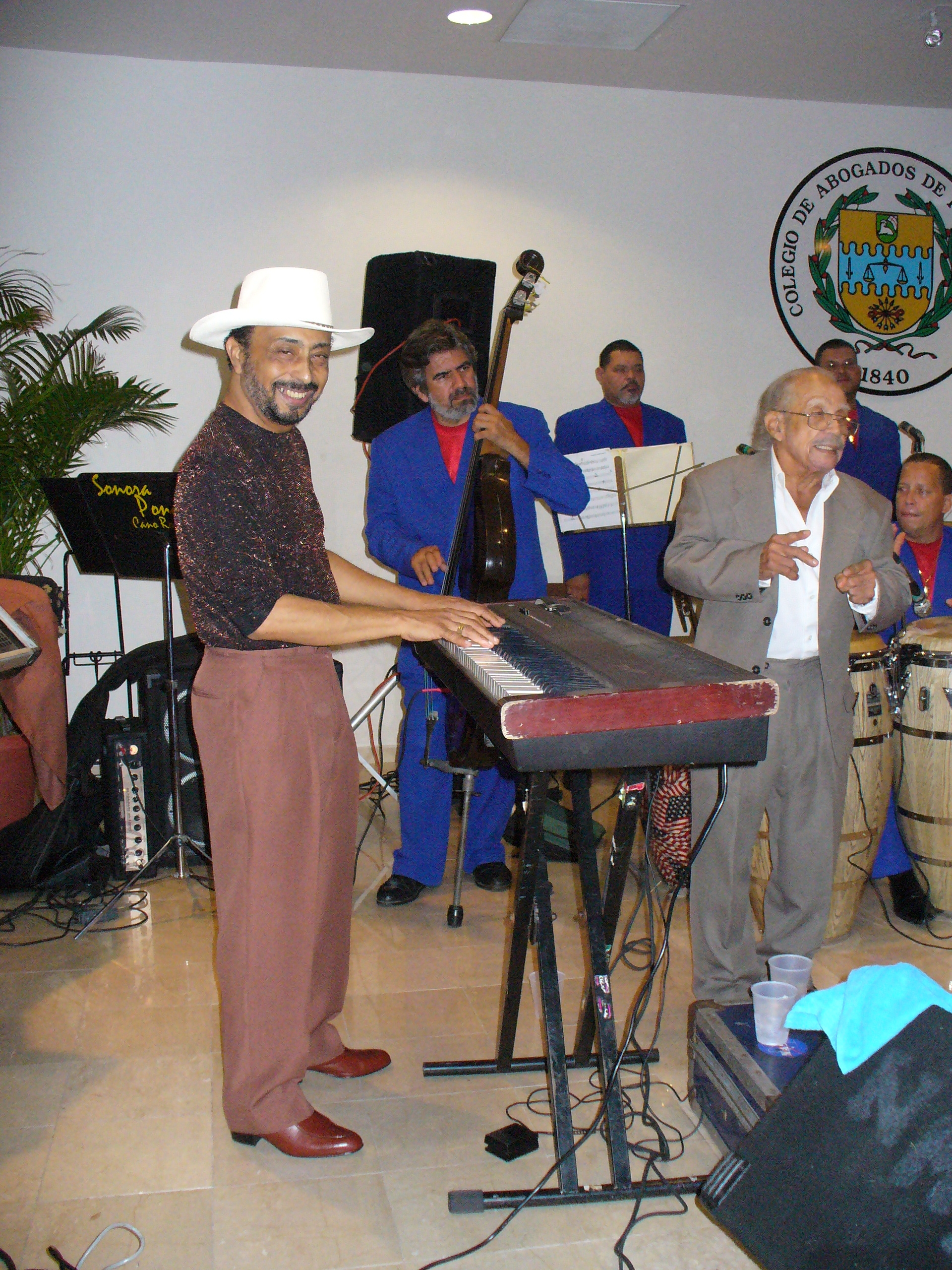 Papo Lucca at piano with his father Don Quique Lucca and La Sonora Ponceña playing at Puerto Rico Bar Association "Colegio de Abogados de Puerto Rico" (2006)